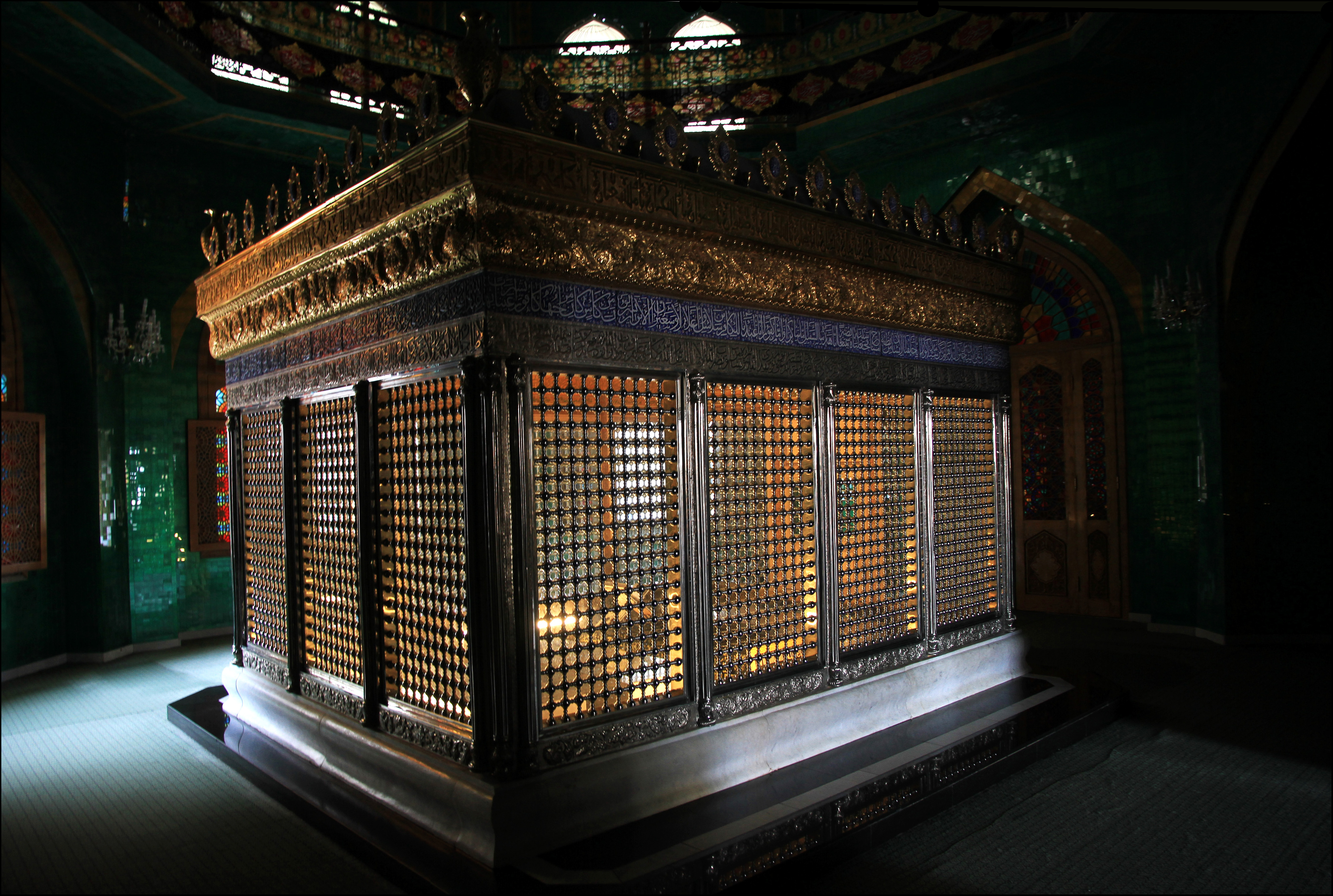 turbe